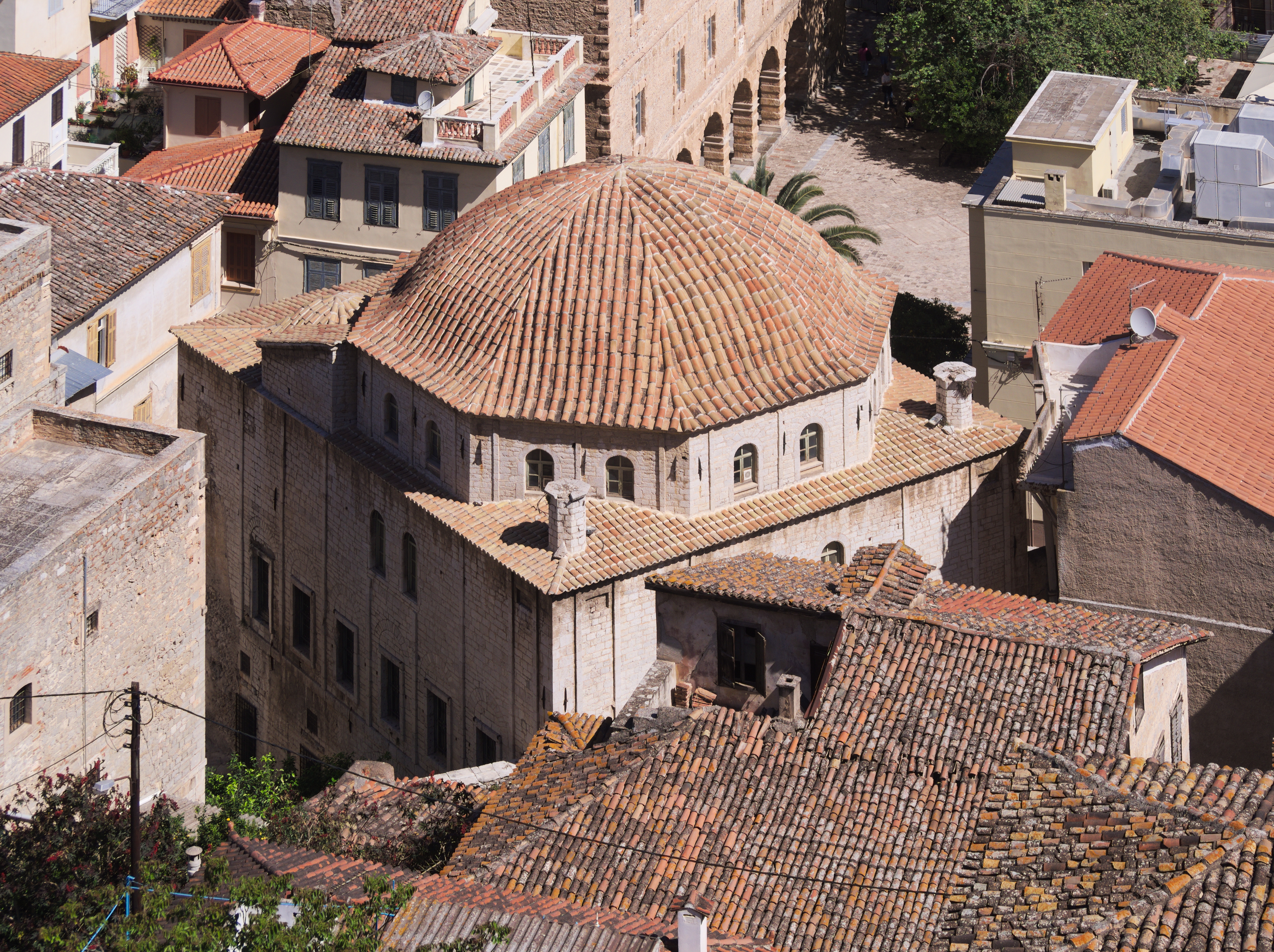 View of Aga pasha mosque from Akronafplia. The mosque, built in 1730, housed the first parliament of Greece, and thus in known as Vouleftikon (Parliament).